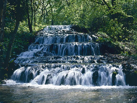 Bükk national Park